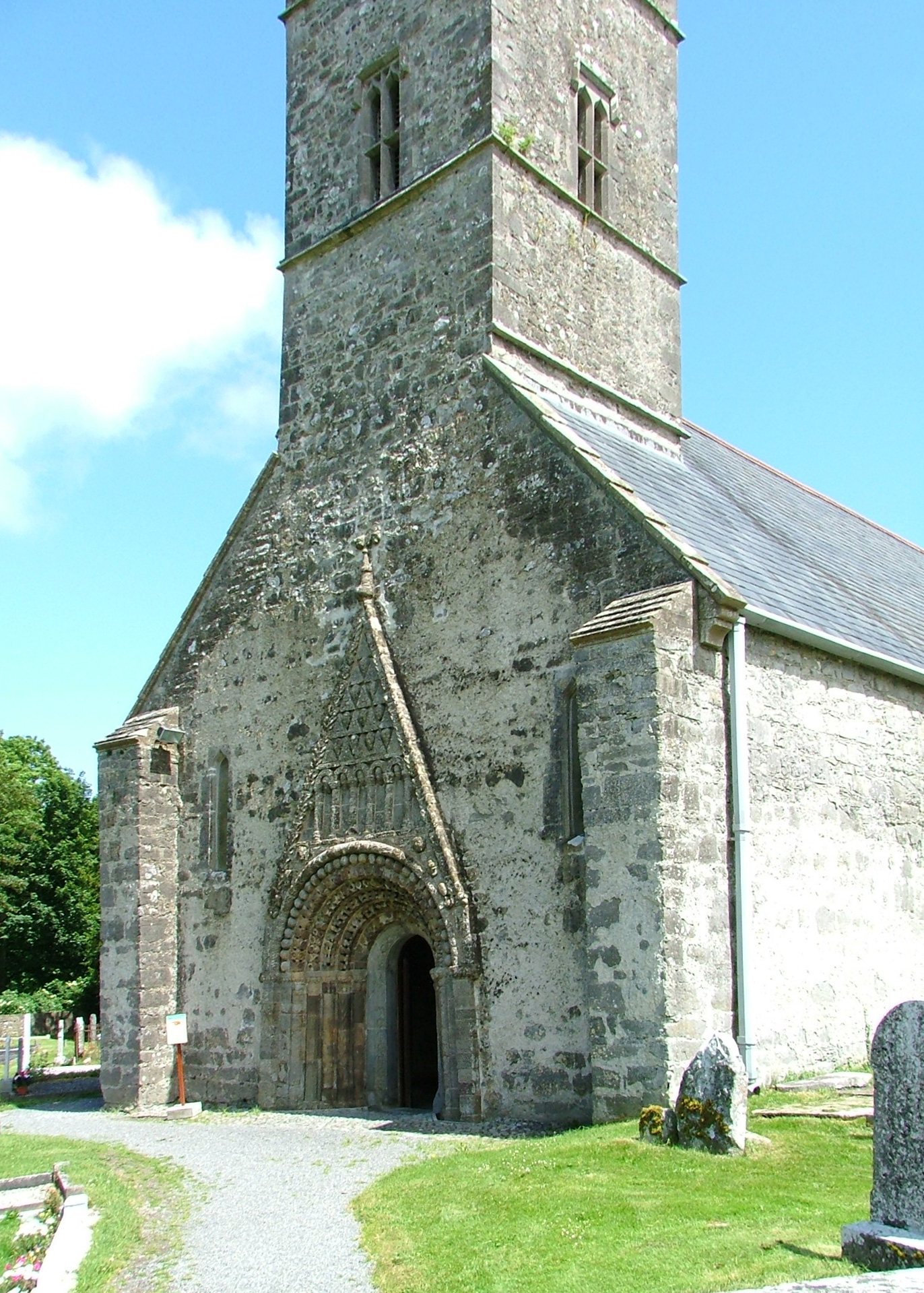 Clonfert Cathedral, Clonfert, County Galway, Ireland.